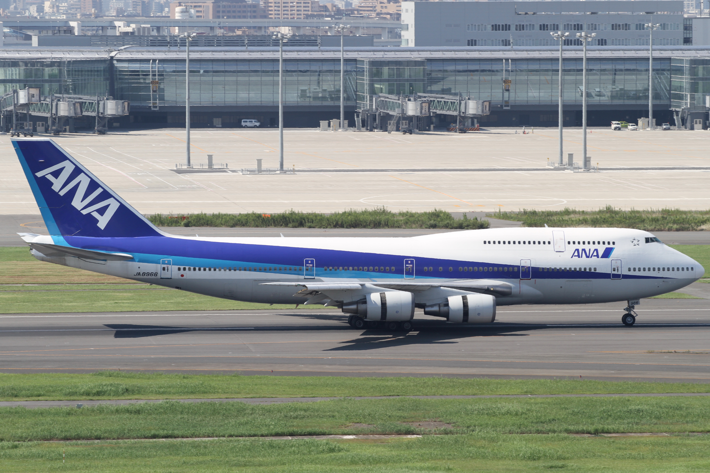 Tokyo International Airport, Boeing 747-481D, c/n:27442, All Nippon Airways